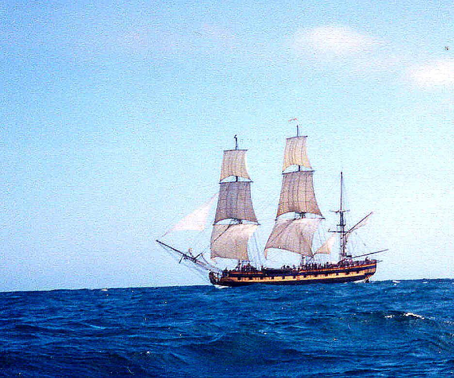 HMS Rose in 2000 on a voyage from Charleston to Baltimore We went far enough out into the Atlantic to be in the Gulf Stream where the water was really blue. This shot was taken by the mate from one of the ship's rubber boats so everyone could see what she looks like under sail. During the whole trip the spanker was never set - apparently it made the ship a little hard to handle rather than being an asset.